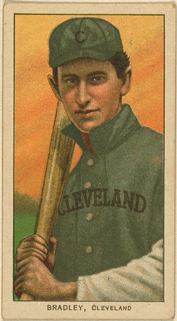 Bill Bradley on a 1909-1911 American Tobacco Company baseball card.